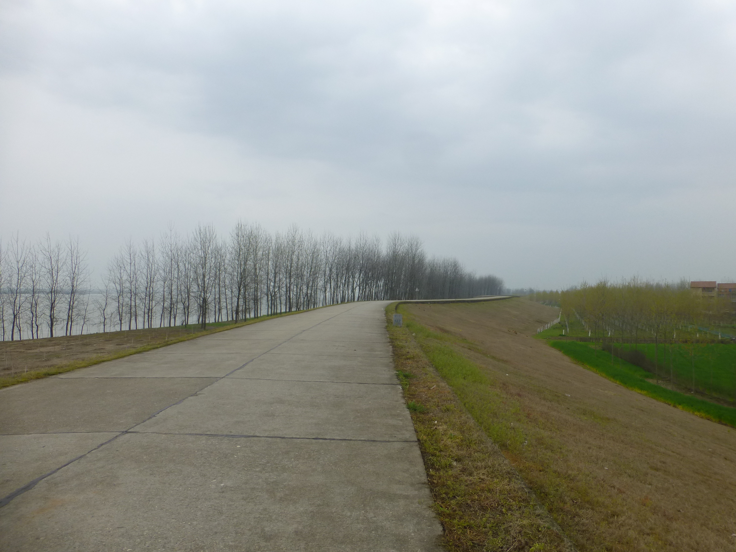 A view from the levee on the left bank of the Yangtze in Yanwo Town, Honghu City, Hubei